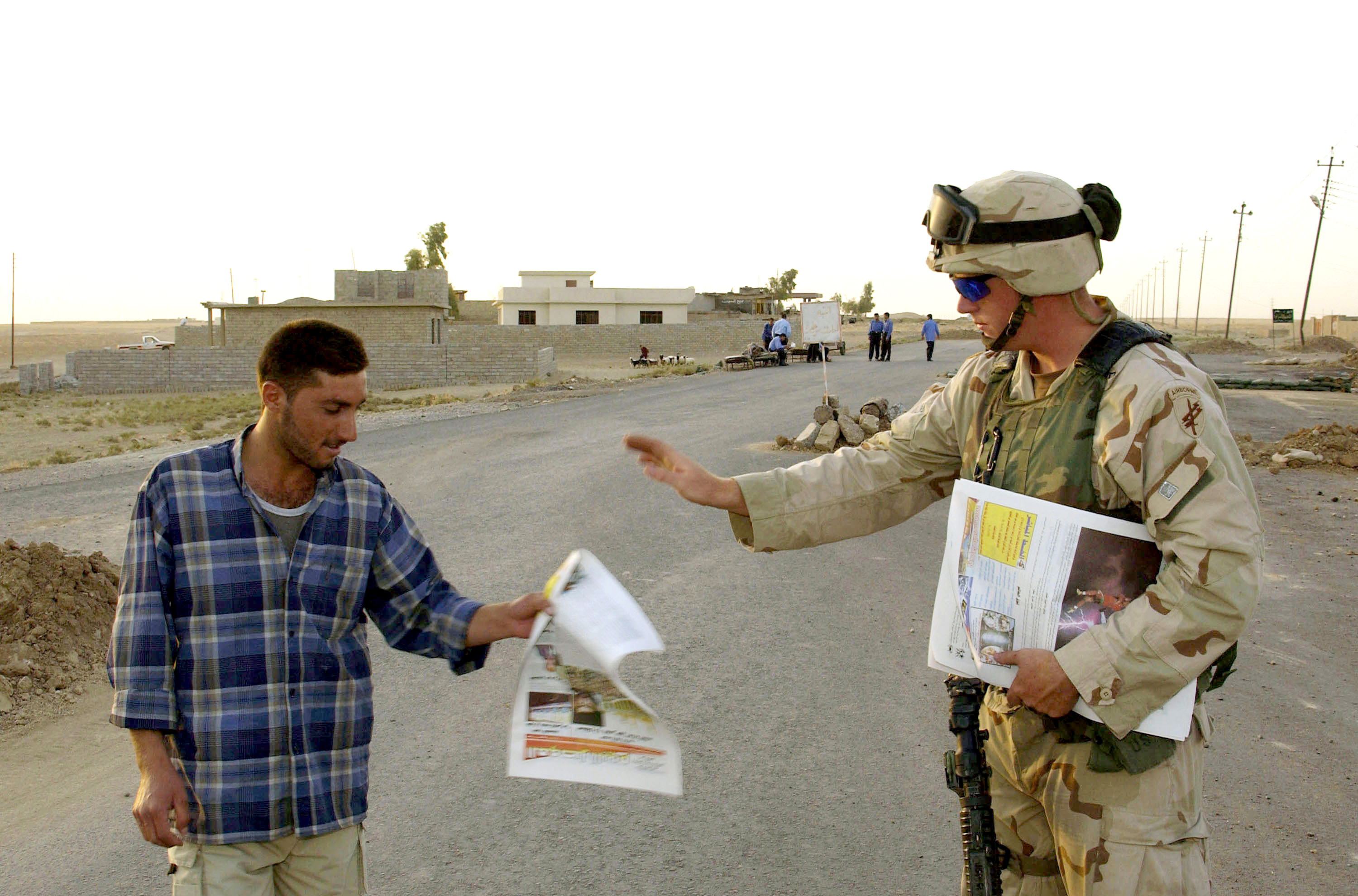 U.S. Army Pvt. 1st Class Sorenson (right), Tactical Psychological Operations Detachment (TPD), 4th Psychological Operation Group, Fort Bragg, N.C., hands out a newspaper to a local on Aug. 24, 2004 in Mosul, Iraq, during Operation Iraqi Freedom.